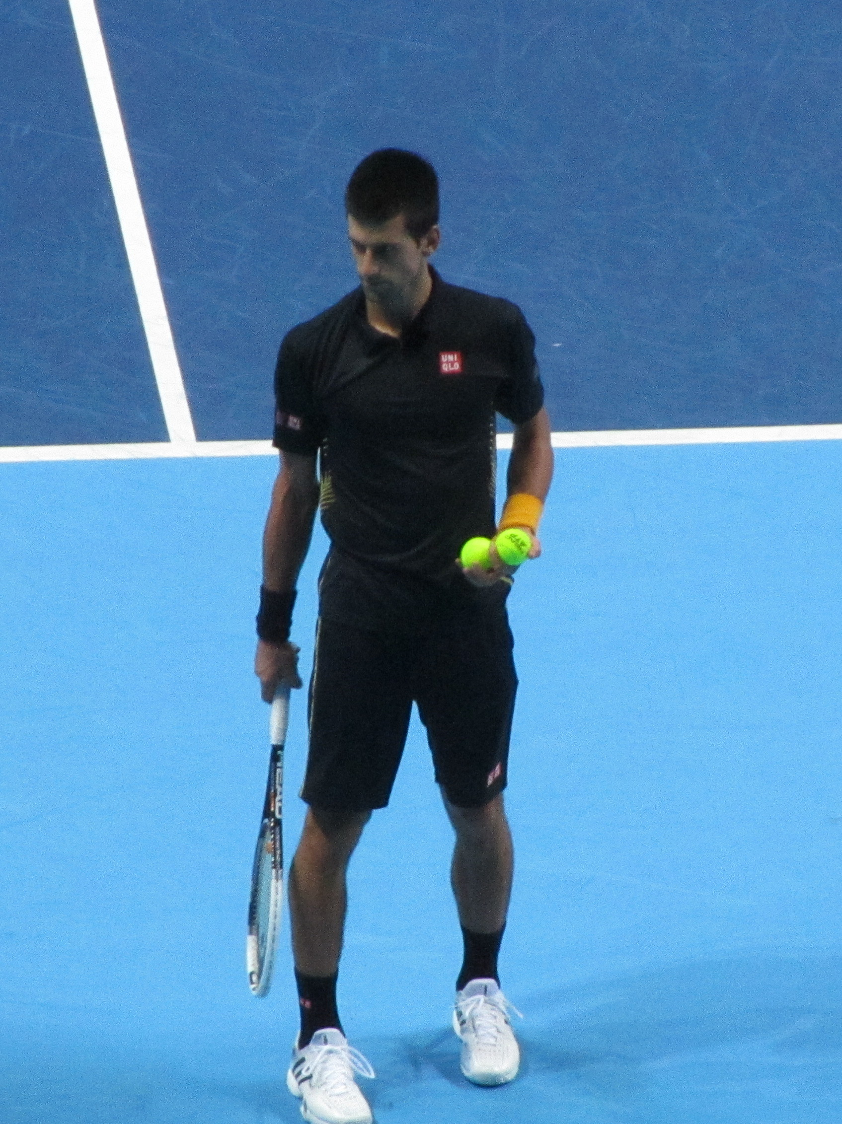 Djokovic collecting ball to serve at Roger Federer in the final.